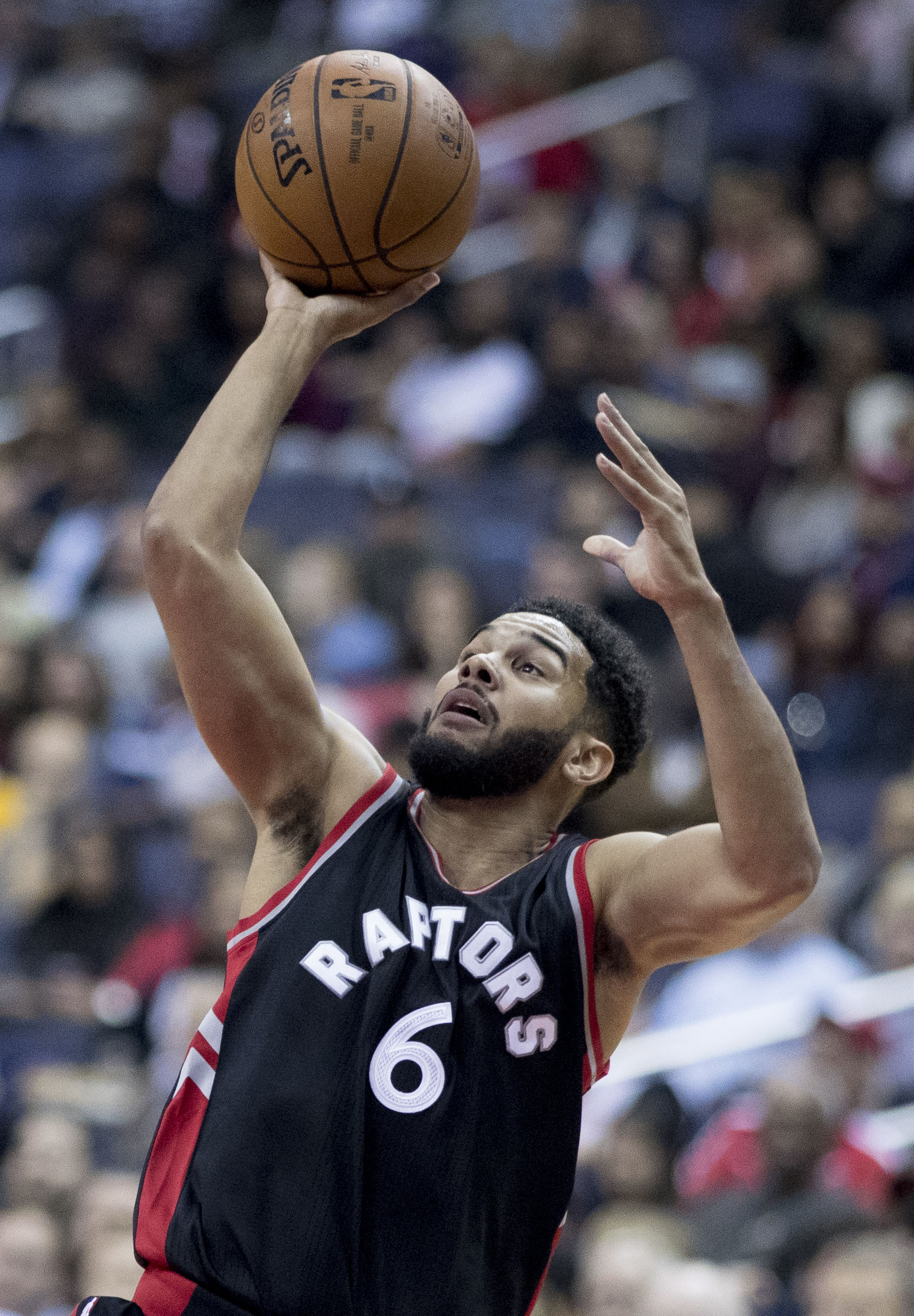 Cory Joseph of the Toronto Raptors during a game against the Washington Wizards on November 2, 2016 at Verizon Center in Washington, DC.